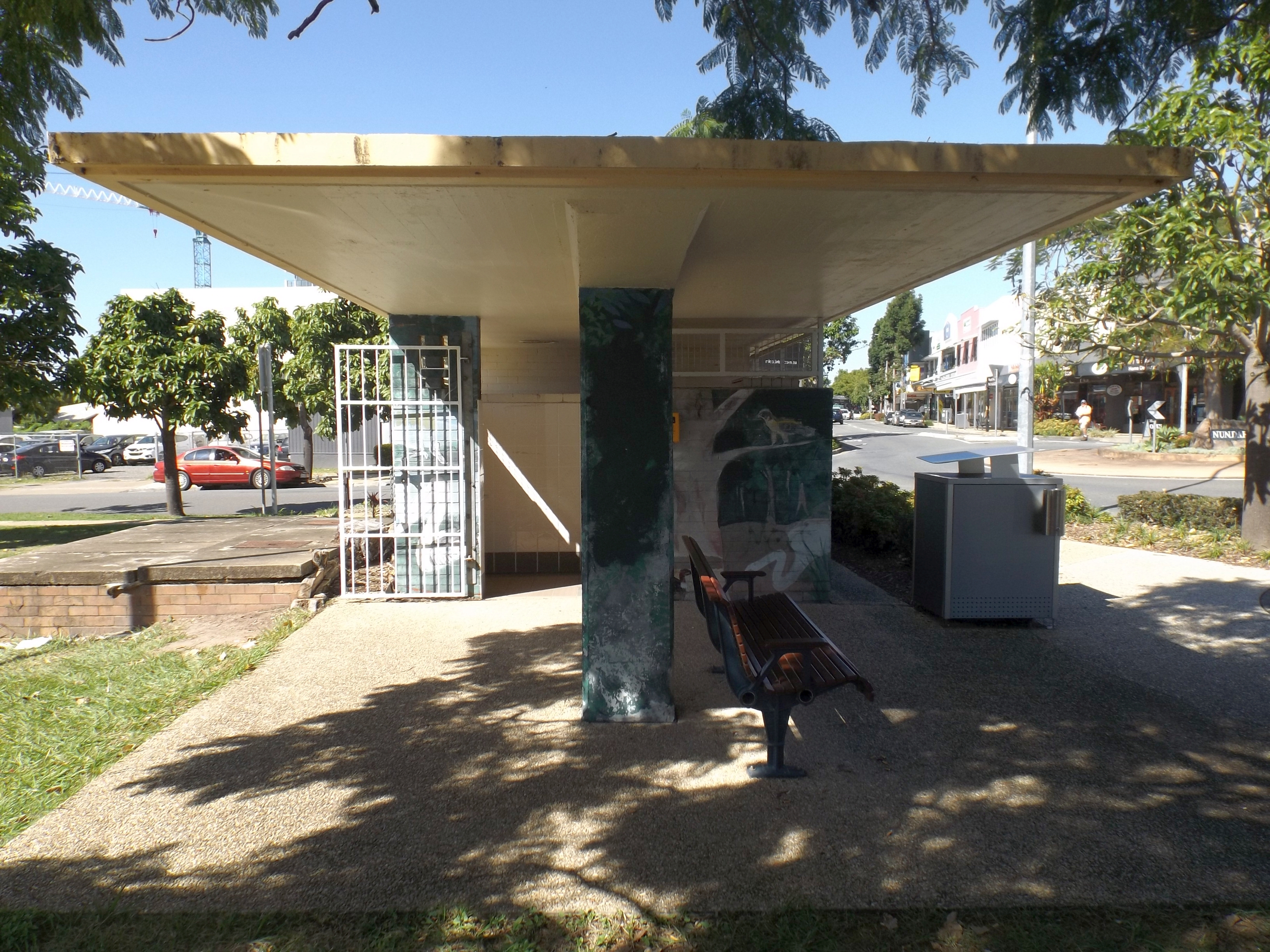 Photo of the Nundah Air Raid Shelter at Nundah, Brisbane, Queensland, Australia. The structure is now a public toilet.